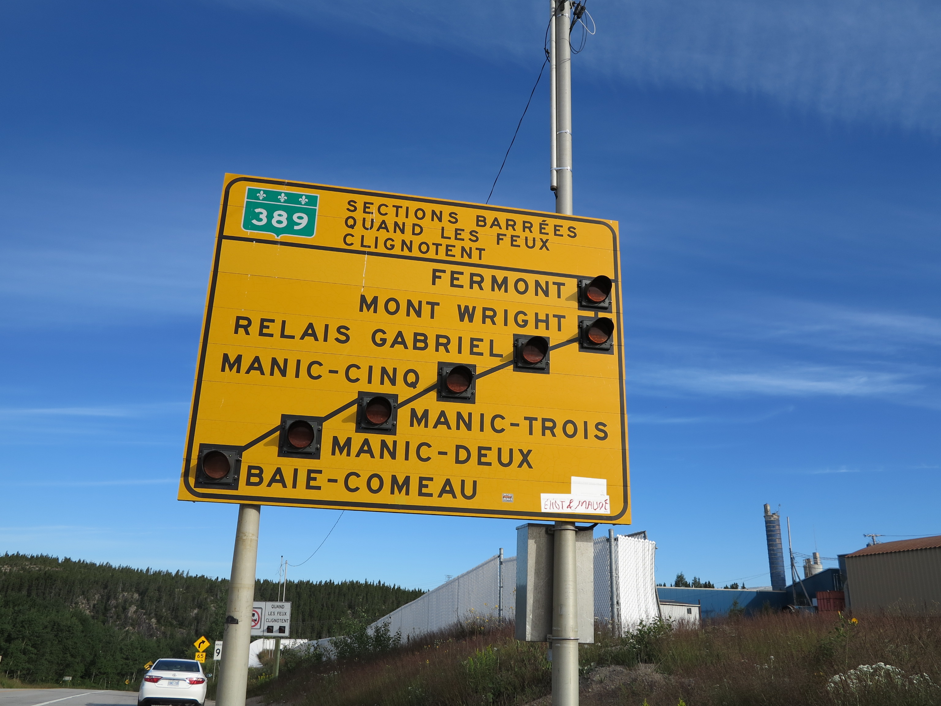 Starting Point Quebec Route 389